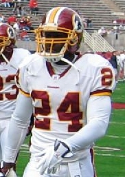 Defensive back #24 Shawn Springs (en) of the Washington Redskins